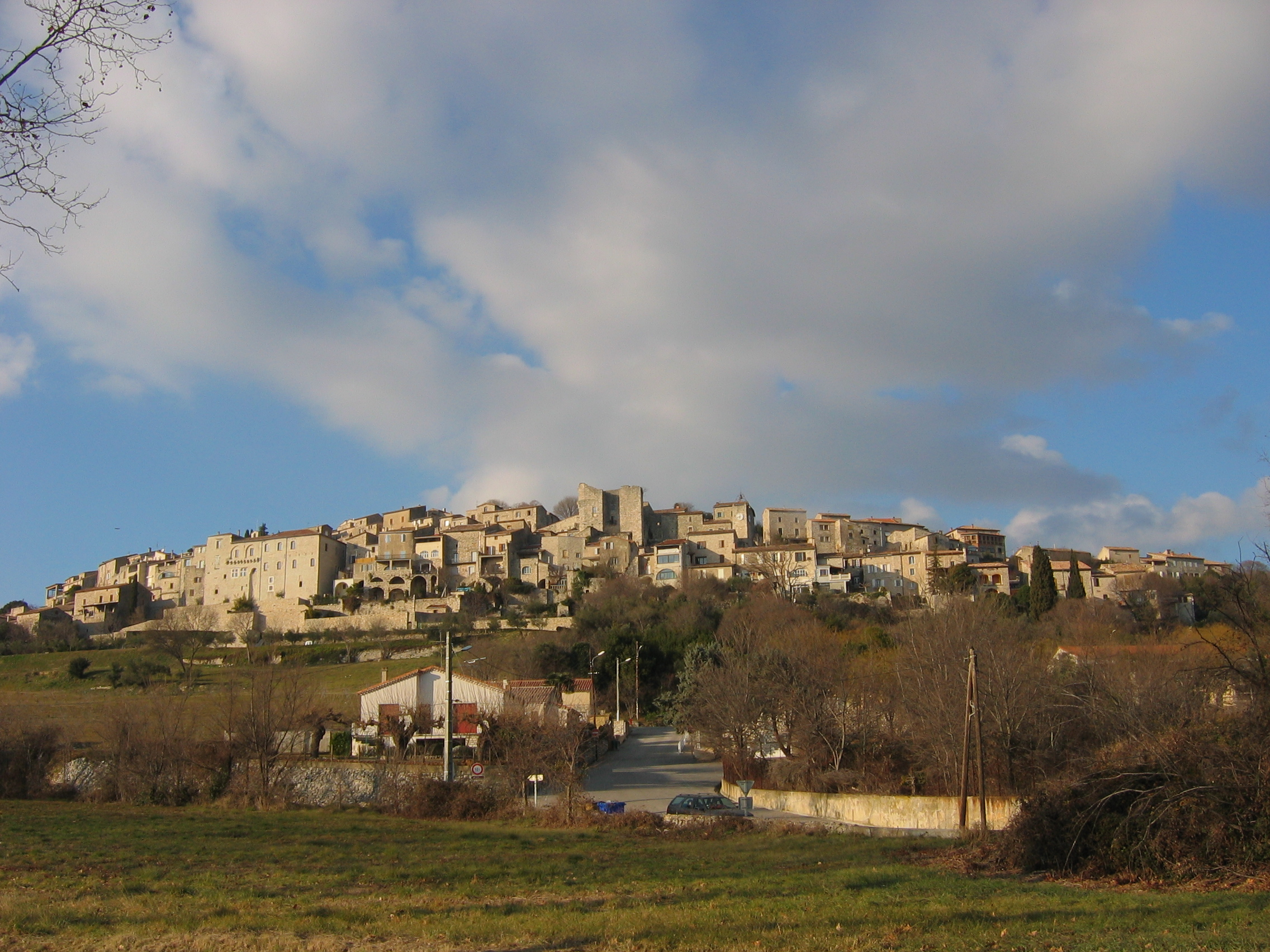 Photo taken by Poppy in January 2006. Vézénobres - Village.